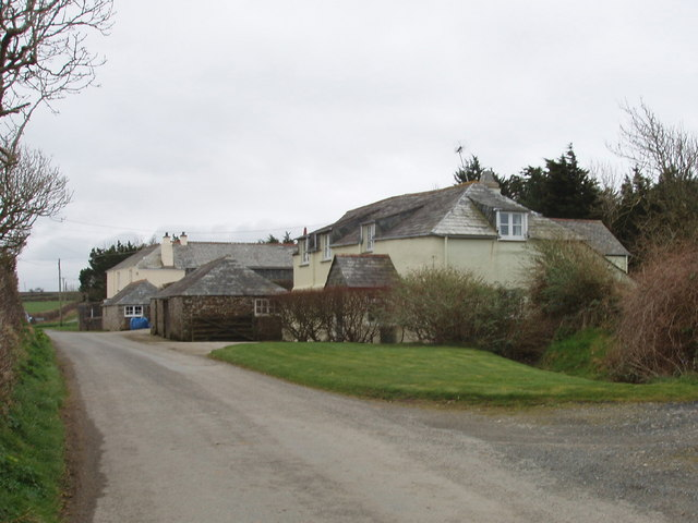 Houses at Rosecare On the road just away from the village green.